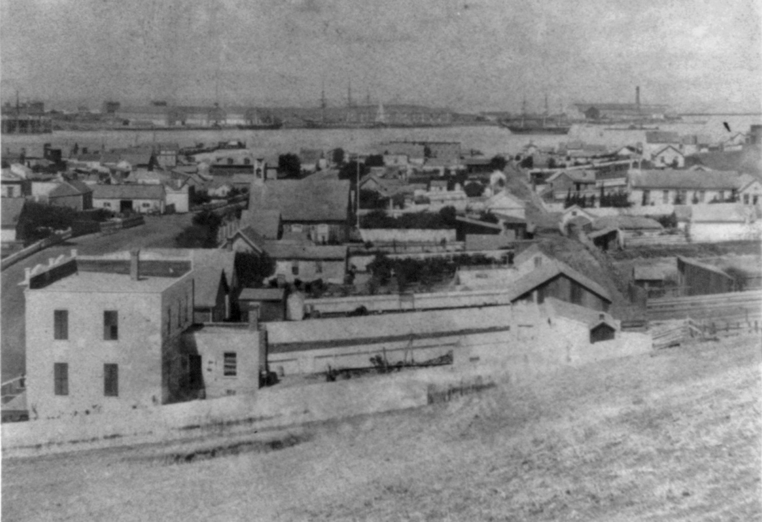 View of the U.S. Navy Mare Island Naval Shipyard, Solano County, California (USA), in 1866.